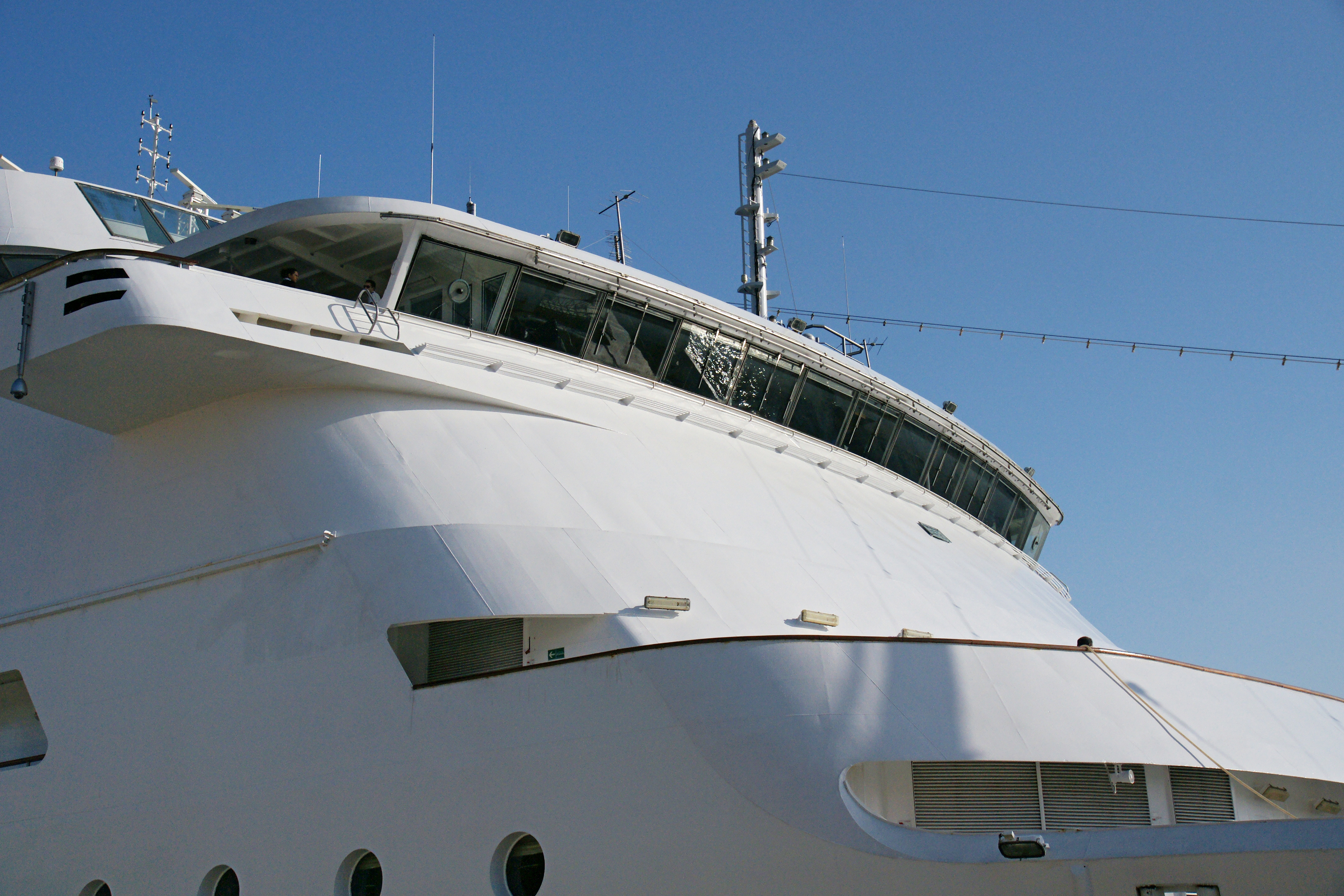 "Costa Classica" at "Kobe Port Terminal" of the Kobe harbor in Kobe, Hyogo prefecture, Japan.